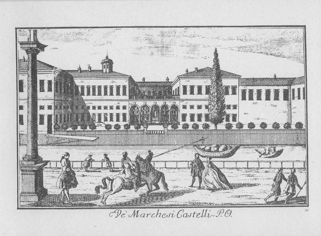 Marc'Antonio Dal Re (1697-1766), Palace of the Marquesses Castelli, at P O , in Milan, Italy. This engraving shows Palazzo Visconti di Modrone in Milan, and is # 61 from a set of 88 Vedute di Milano ("Views of Milan") published by Del Re around 1745.